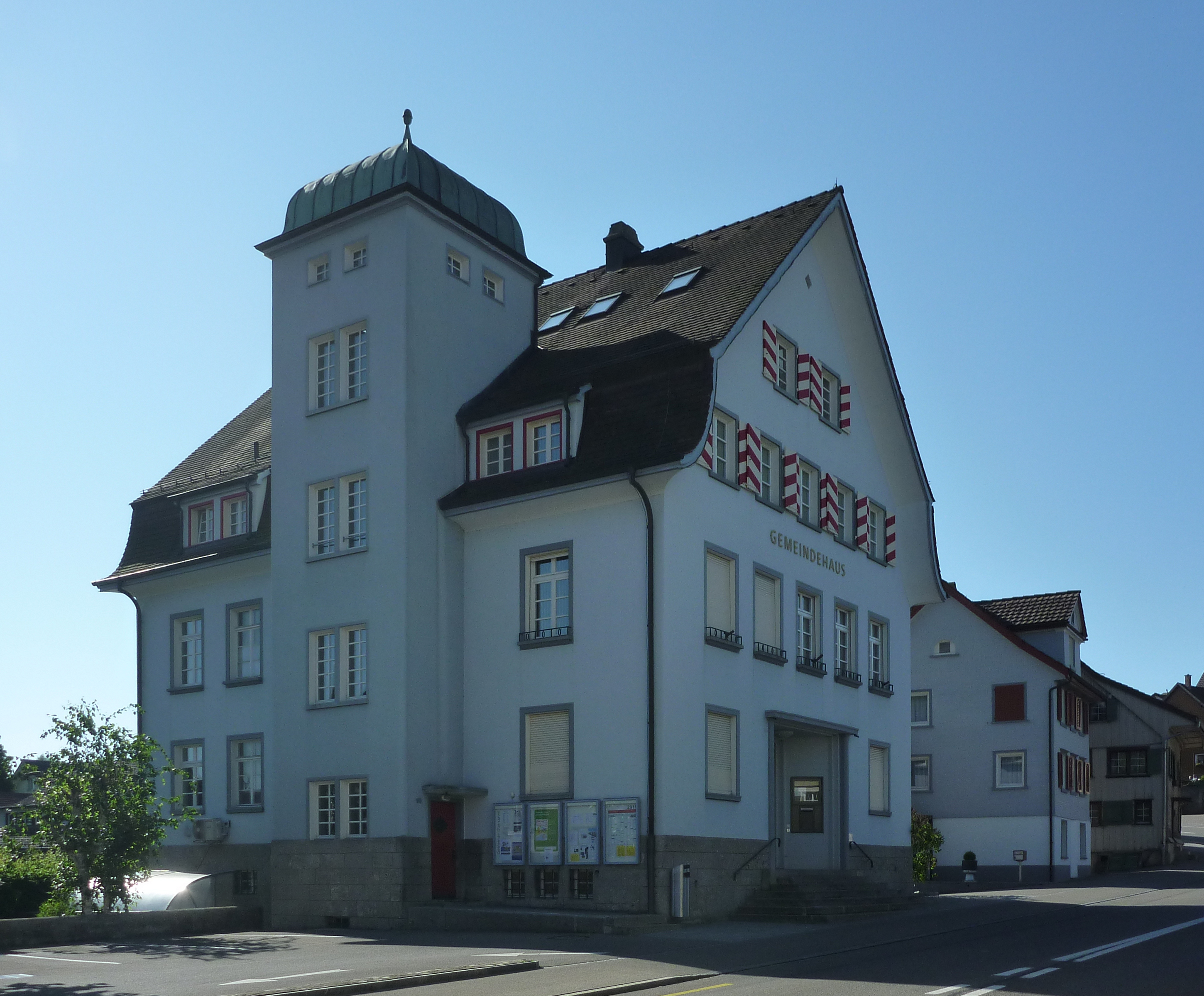 Town hall of Oberuzwil, canton of St. Gallen in Switzerland